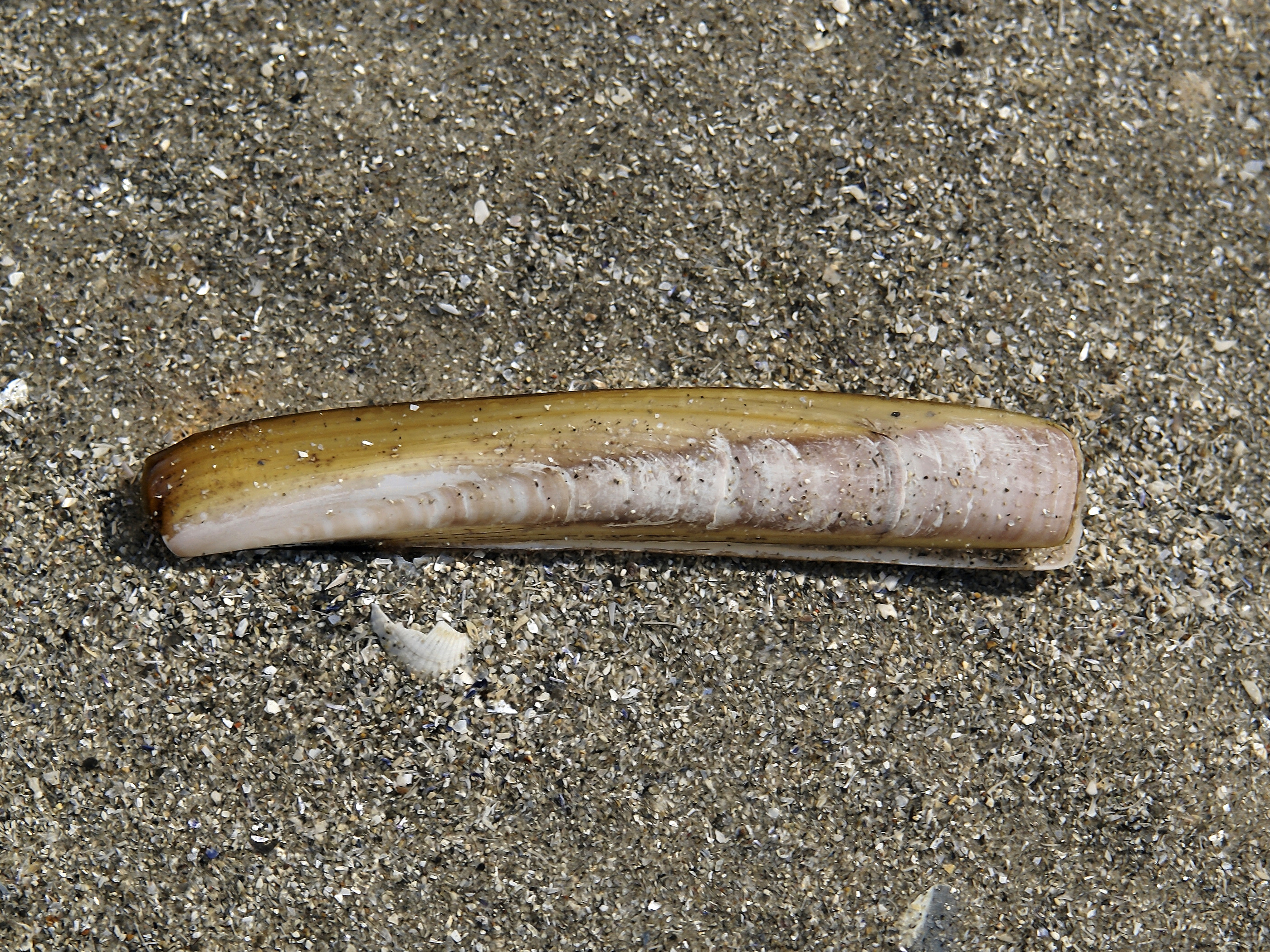 American jack knife clam on the beach at Wimereux, France.